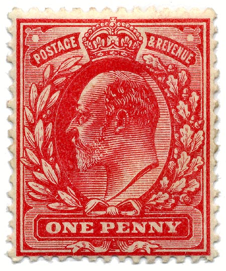 Scan of United Kingdom 1-penny stamp of 1902